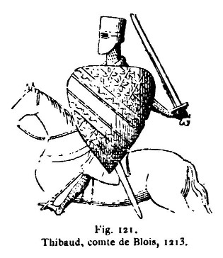 Theobald, Count of Blois - 1213